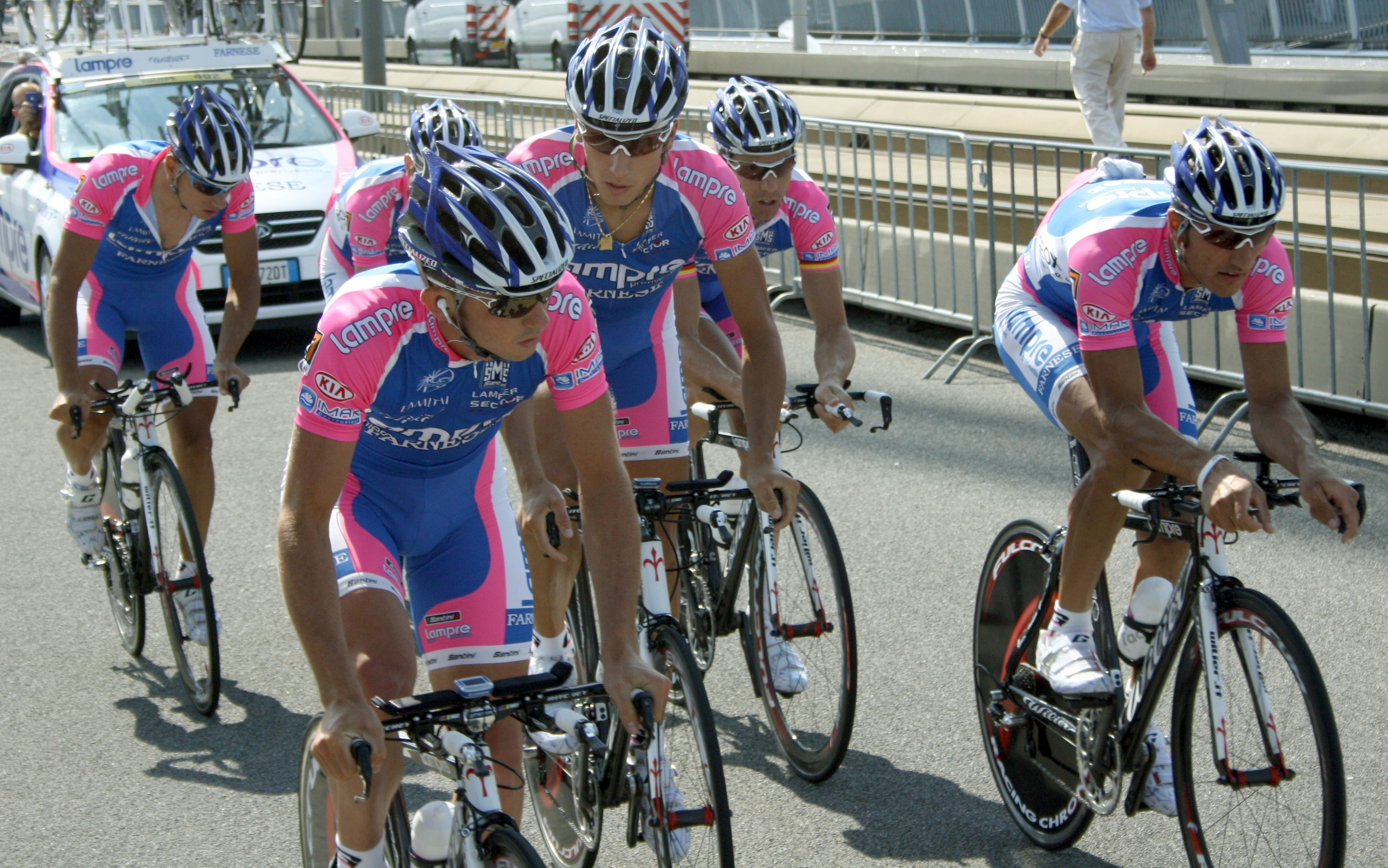 Lampre training for the prologue of the 2010 Tour de France in Rotterdam